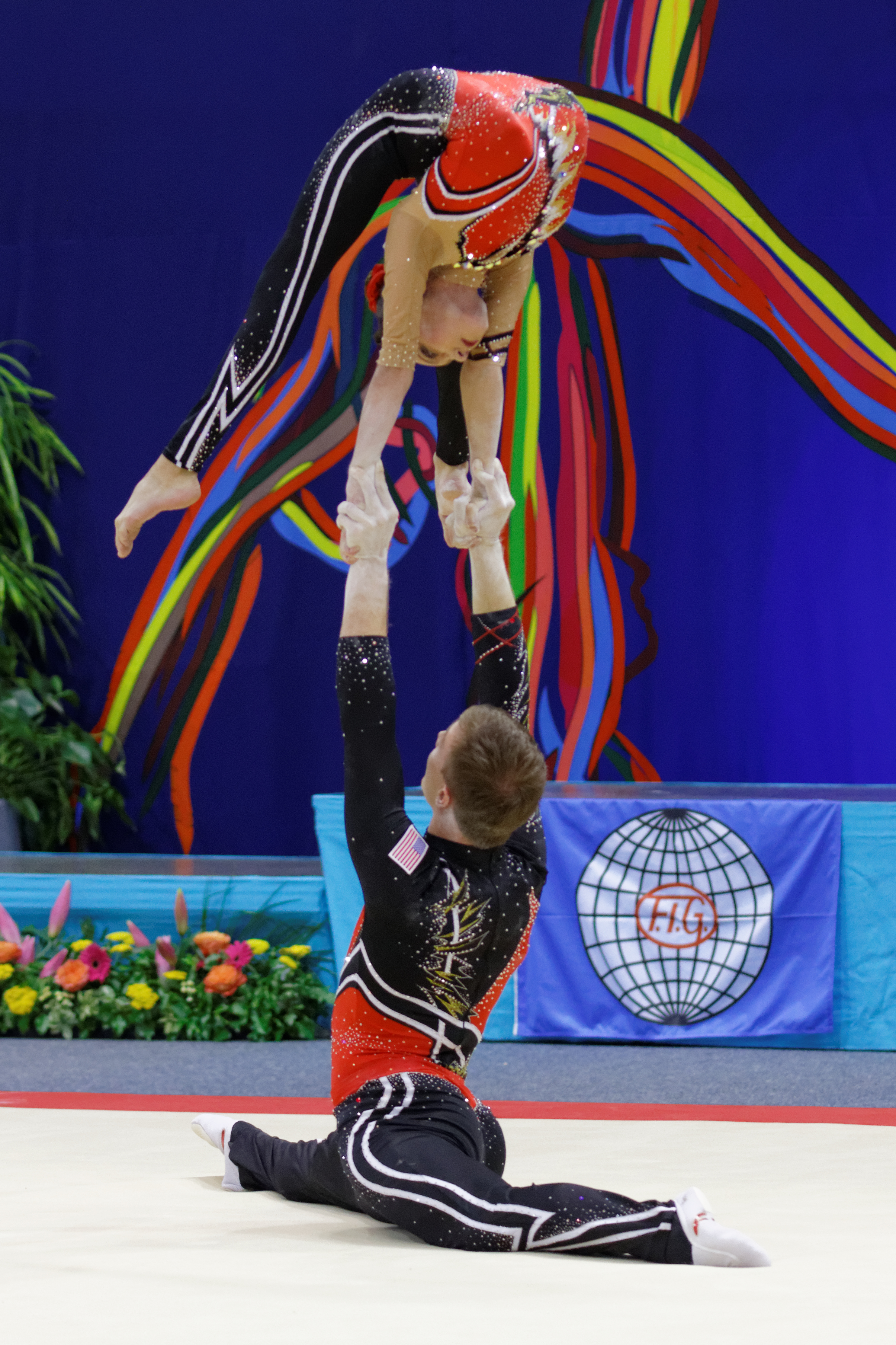 2014 Acrobatic Gymnastics World Championships, 10th-12 July, Levallois-Perret, France. Qualifications: mixed pair. USA 1.